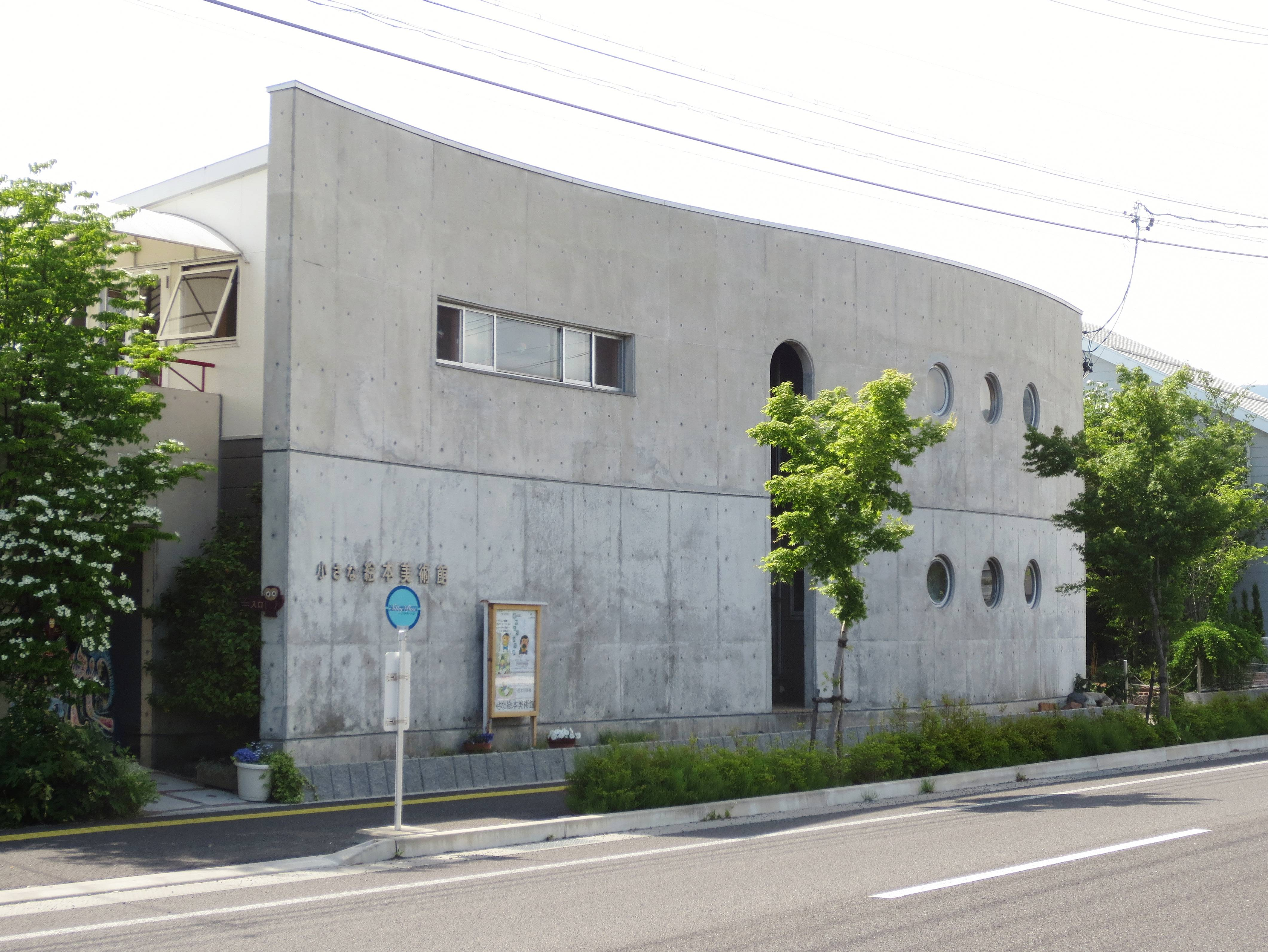 Little Museum In A Village Of Picture Books.